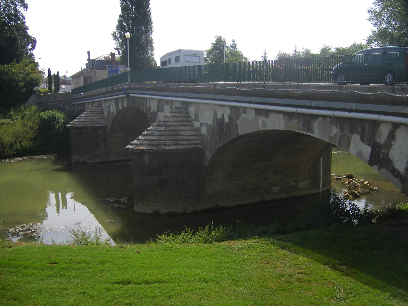 Bridges over the Arros